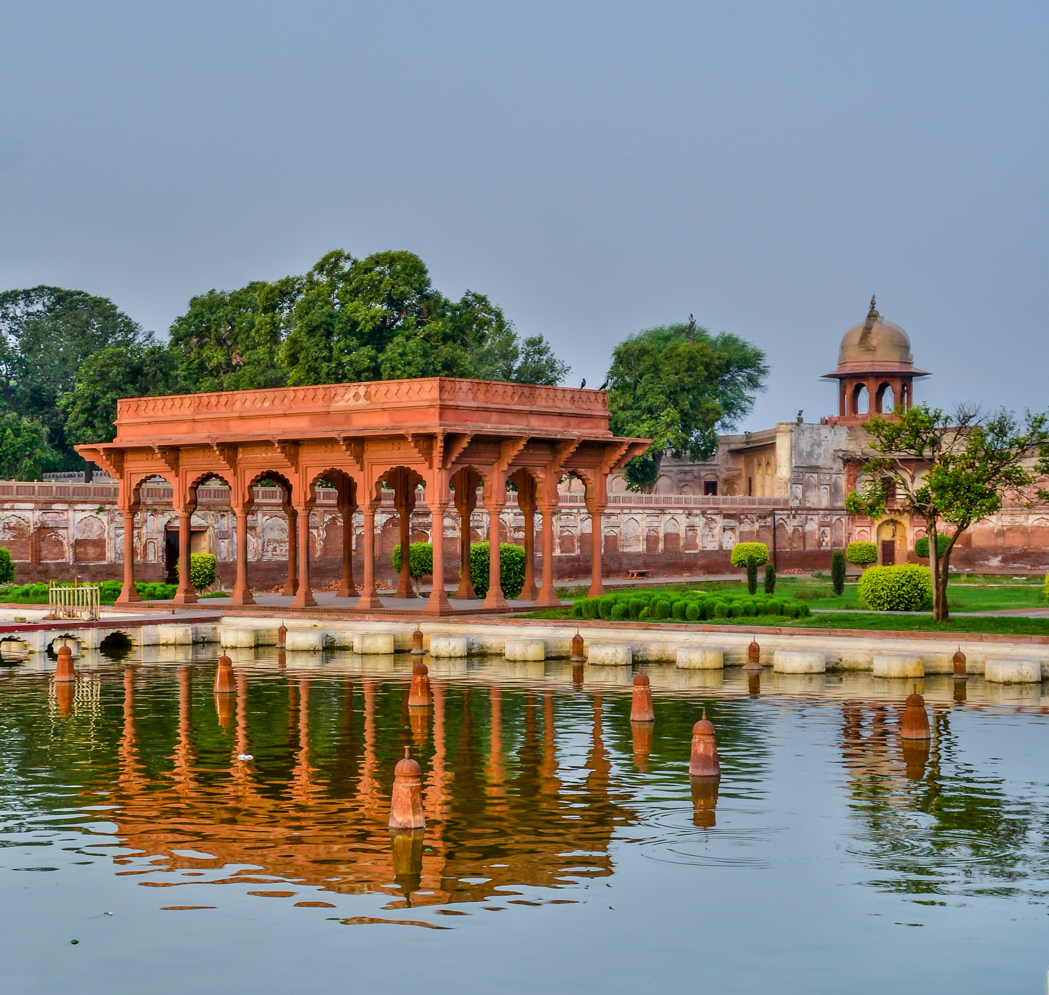 Shalimar Gardens This is a photo of a monument in Pakistan identified as the PB-84